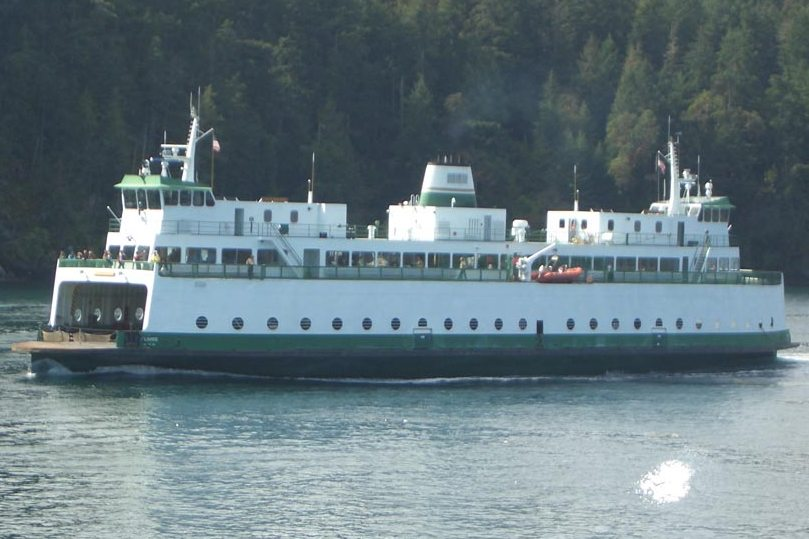 Mike Chapman